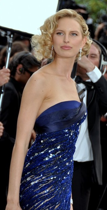 Karolina Kurkova at the Cannes film festival